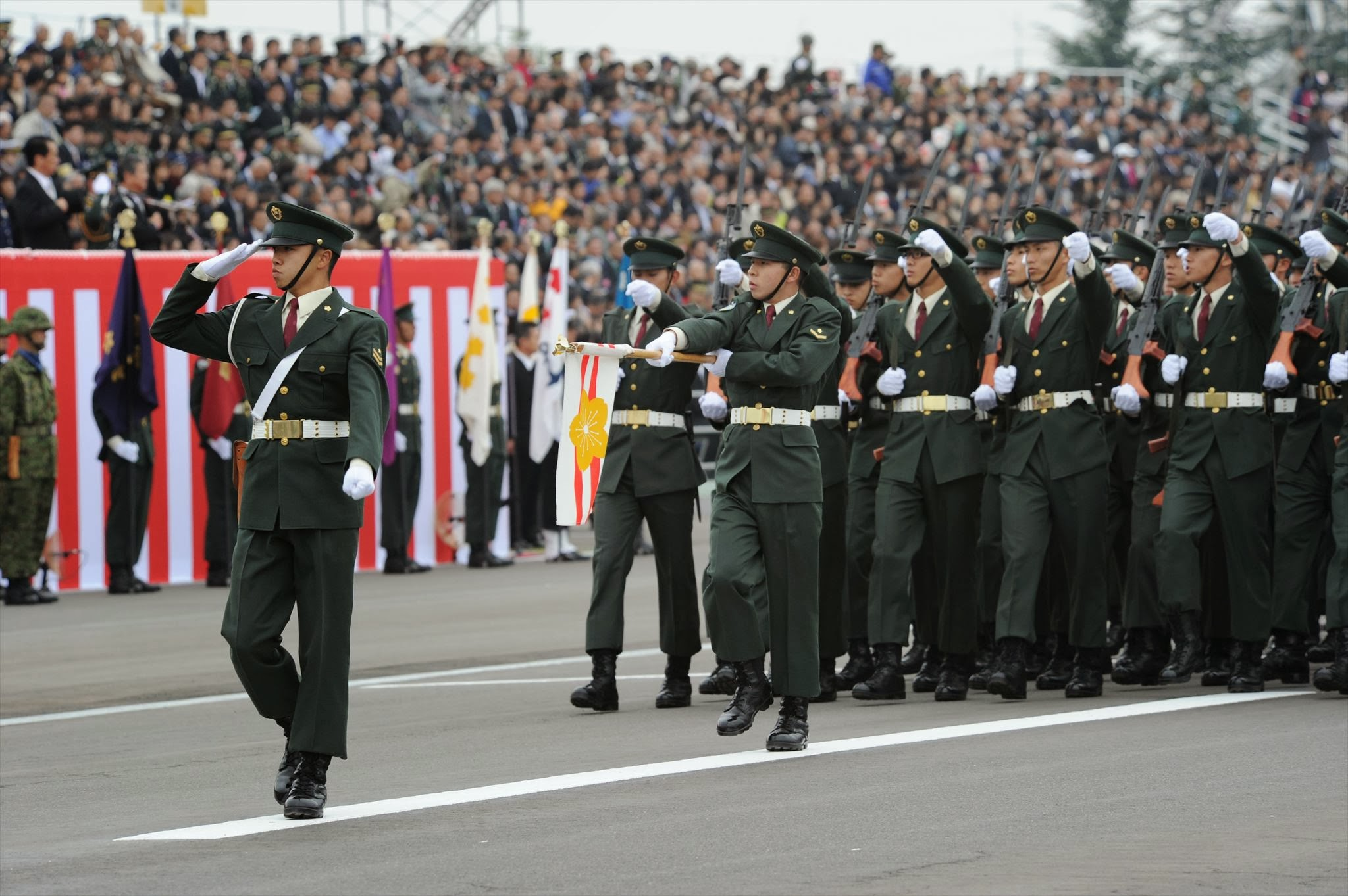 Title 11_05_015_R.JPG Album 自衛隊記念日 観閲式(Parade of Self-Defense Force) 平成22年度自衛隊記念日 観閲式(Parade of Self-Defense Force)